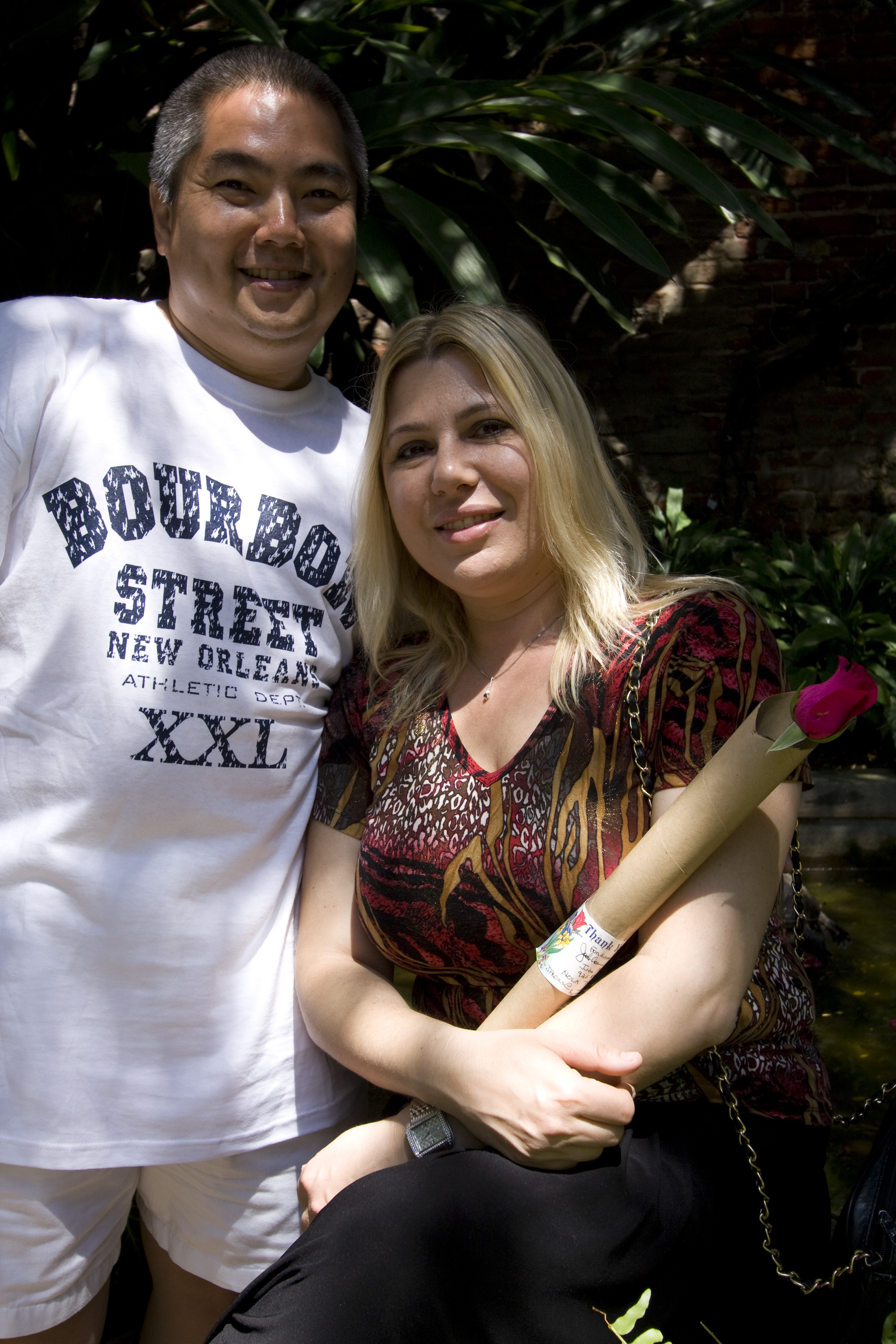 Paul Truong & Susan Polgar at former Paul Morphy House (Brennan's Restaurant), New Orleans